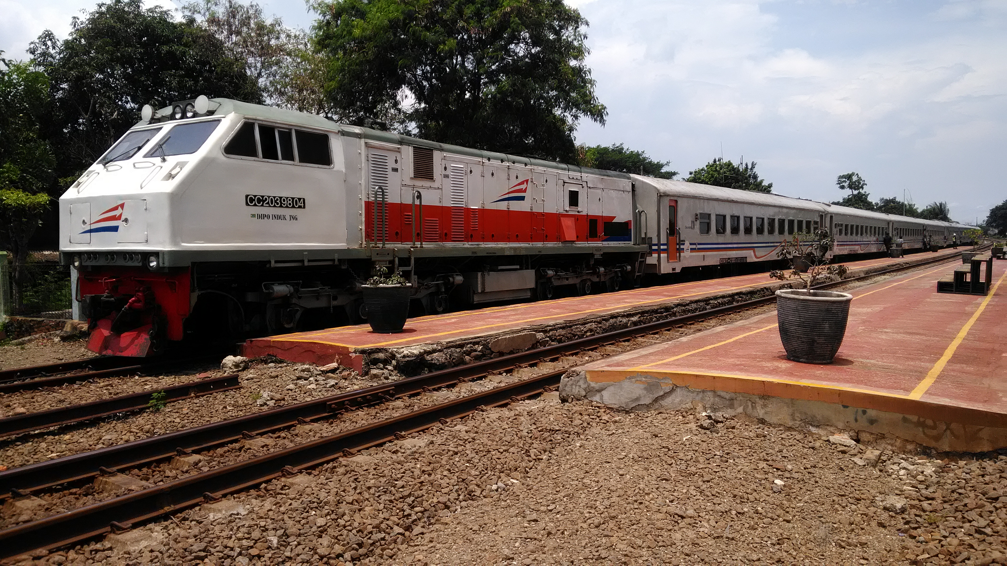 Walahar Ekspres train 324A at Kedunggedeh Station